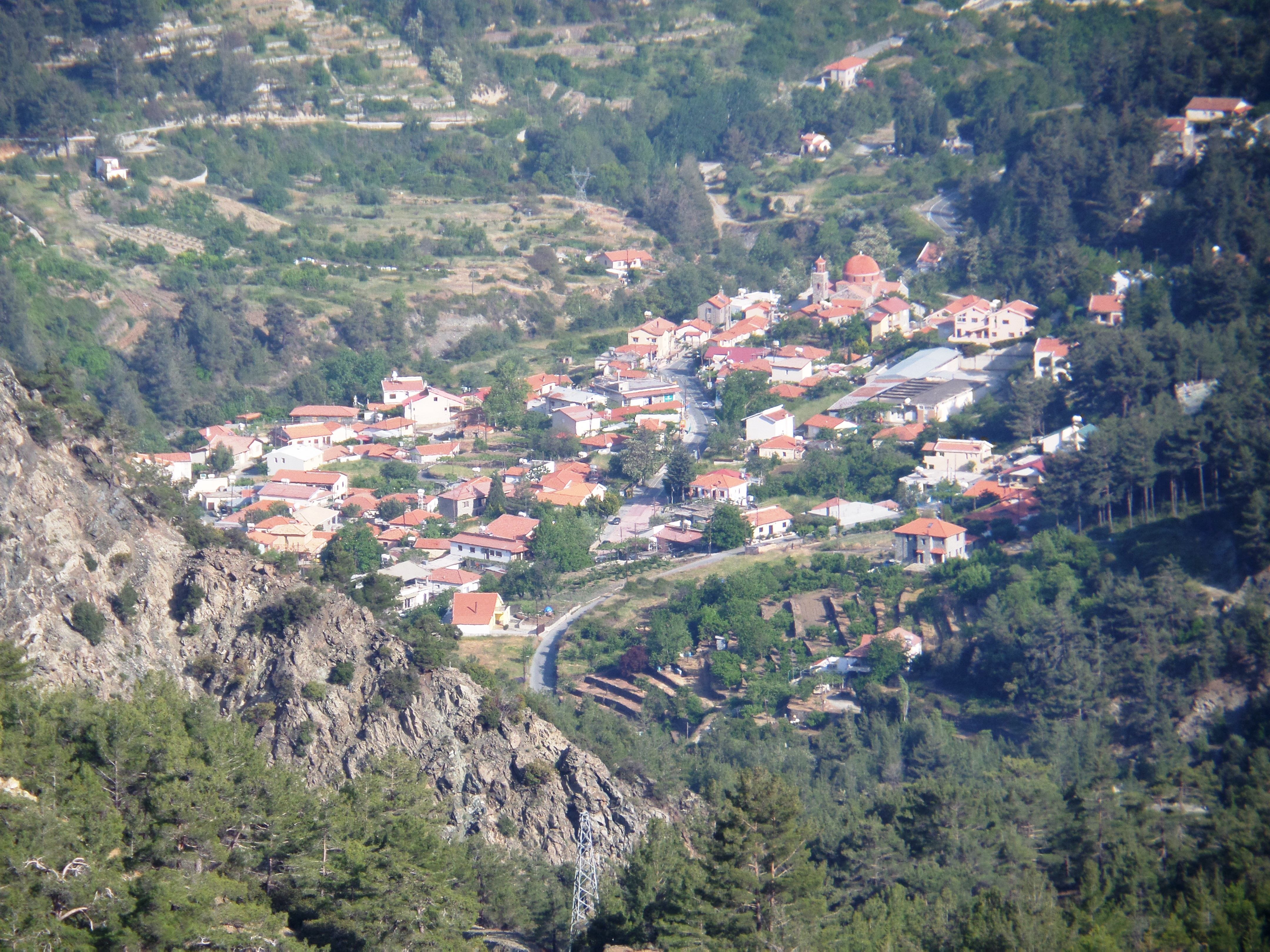 View of Amiantos.